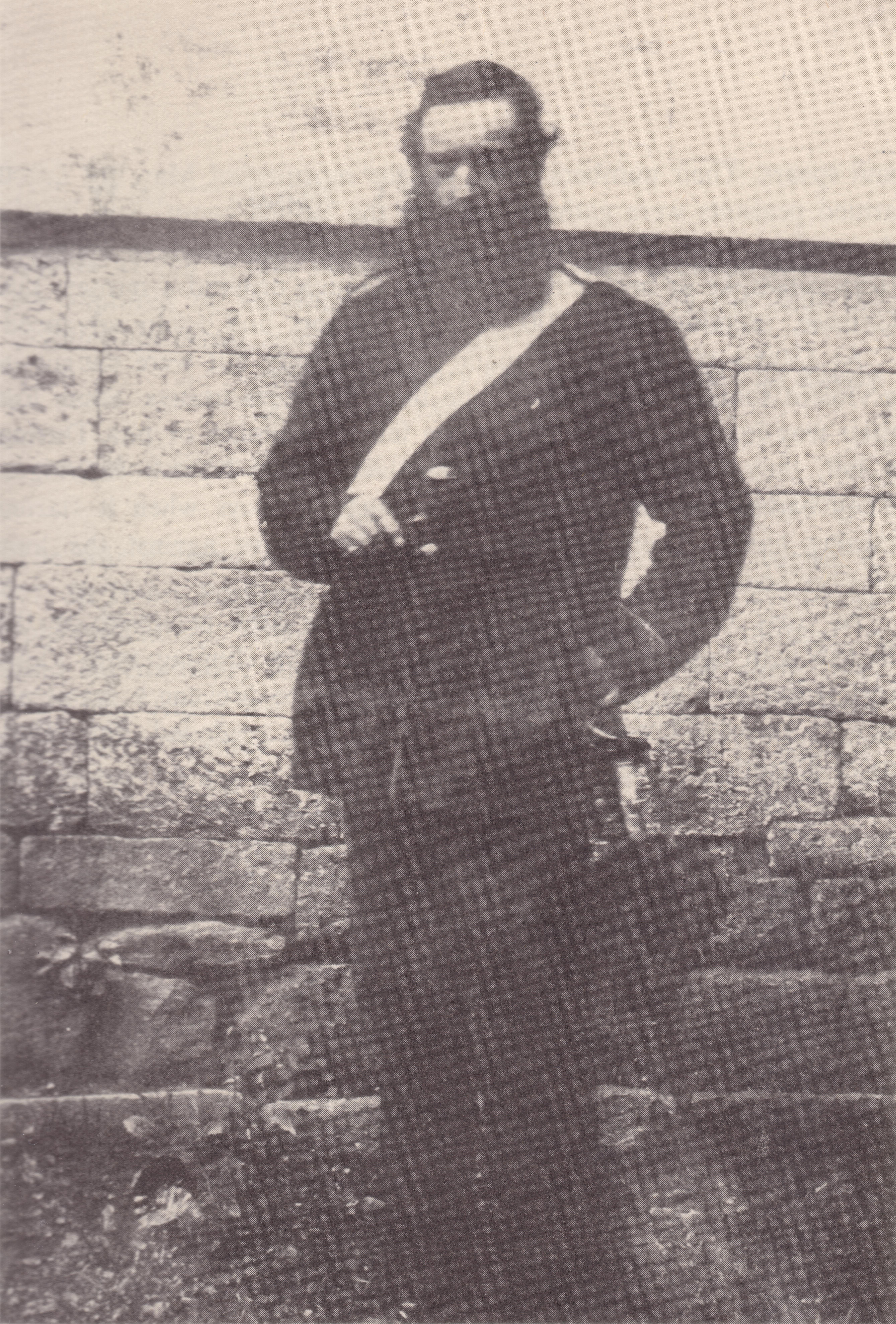 Portrait of Charles Elliot (1801-1875)